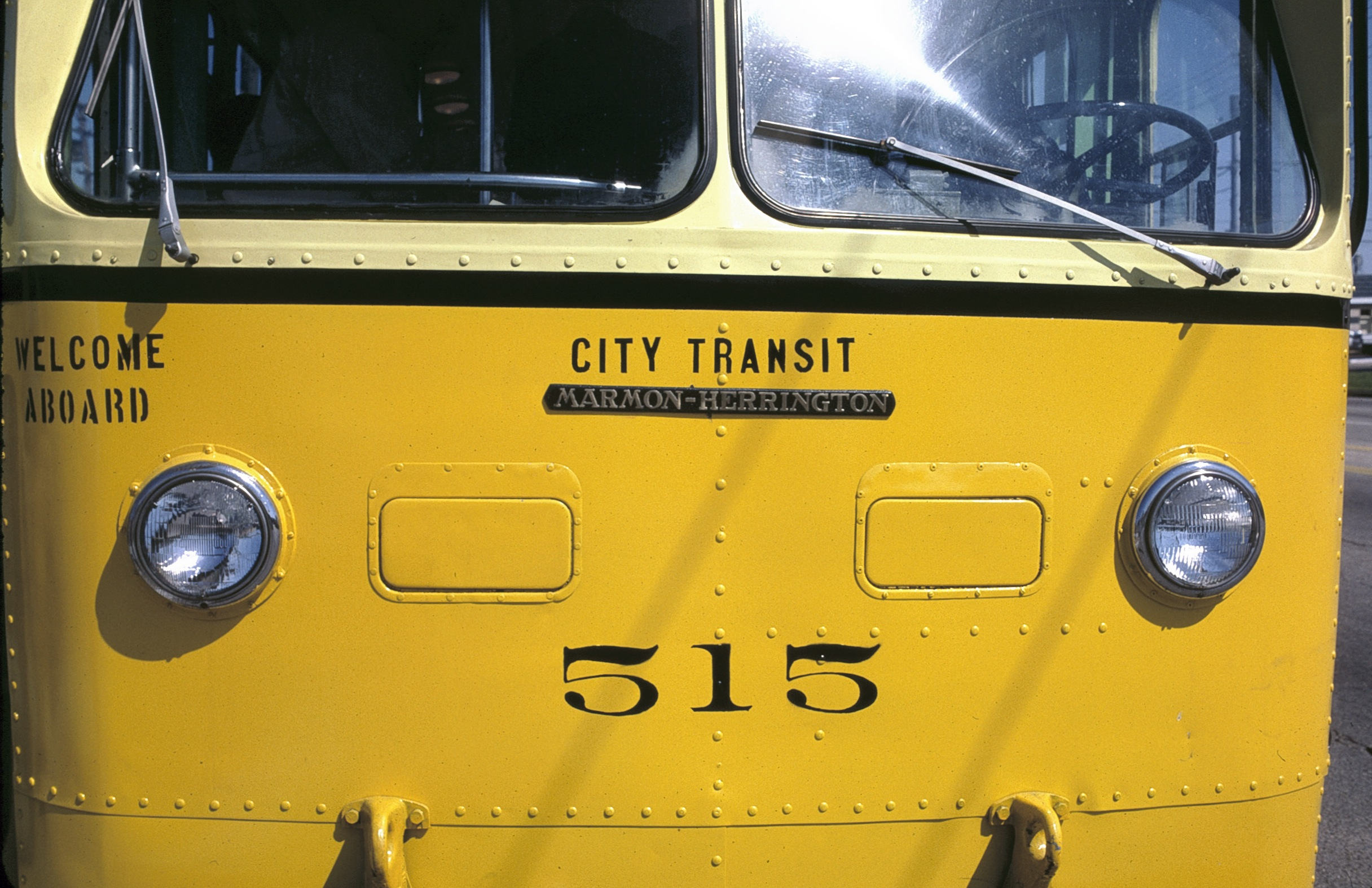 Close-up view of the front of Dayton trolleybus 515, a preserved 1949 Marmon-Herrington TC48. Retired in 1982, it was repainted in 1984 into the colors of Dayton's City Transit Company, which operated public transit service in Dayton from 1955 through 1972. Since 1988 trolleybus 515 has been on semi-permanent display at the Carillon Historical Park in Dayton.